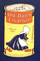 1919 advertising drawing showing the "Old Dutch Cleanser" label. To be used to illustrate use of the Dutch girl in advertising. (See Dutch cap article.) As this image was from a "Merry Christmas" ad for the product dated 1919 according to the University of California, Davis "History Project," the drawing of this cleanser is likely public domain in the United States. Further, this is but a small portion of the entire advertising drawing, and is low resolution. (Taken from overall advertisement found here: As for the logo and package design itself (the trademark), all that is shown here, it is owned by the Cudahy Packing Company (manufacturers of Old Dutch Cleanser in 1919) or its successors in interest. The proper analysis is fair use of trademark here, not of copyright. Investigation of the U.S. Trademark Office records indicate that this logo is currently owned by Dial Brands, Inc. Maude E. Sutherland, daughter of Dr. and Mrs. Murdock Sutherland, resided with her parents on Cowan Street, Westville, Nova Scotia, Canada. In 1905 she designed the Cleaning Lady on the “Old Dutch Cleanser” container. The product was the most popular cleanser of its day.